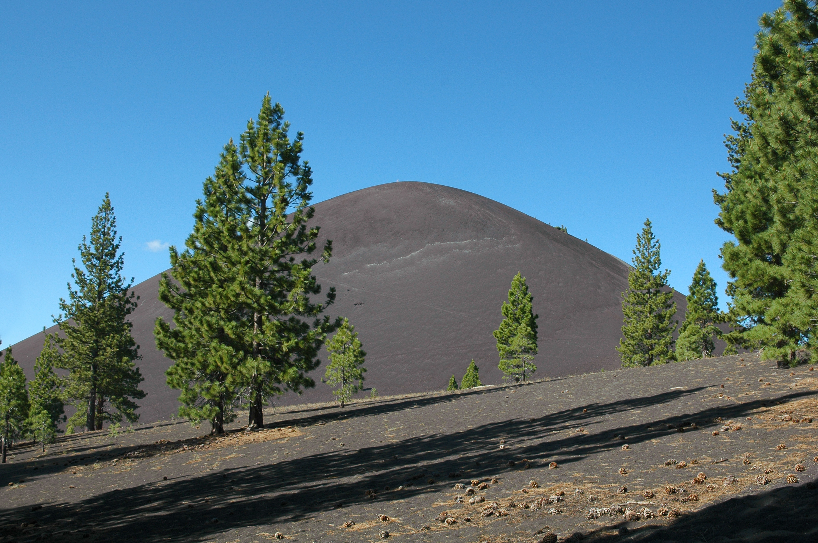 View of Cinder Cone, Lassen Volcanic National Park, California, from the Cinder Cone Trail that leads to it. The trees surrounding the volcano, are Jeffrey Pines Pinus jeffreyi.